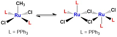 Dimerization of RuCl2L3 into [RuCl2L2]2 upon dissociation of phosphine.